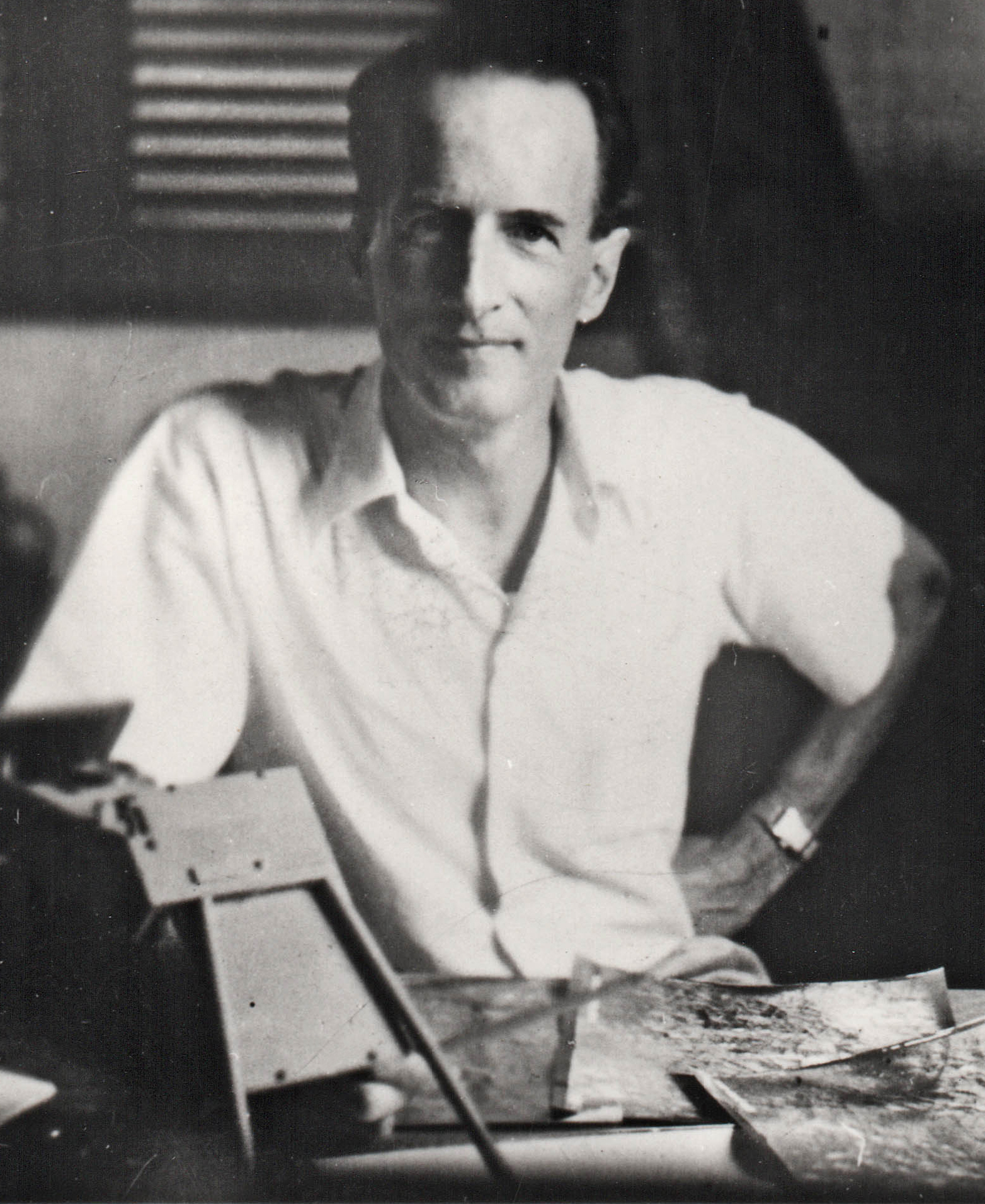 Boris Schubertth, said Choubert (1906-1983), in French Guyana (around 1950).